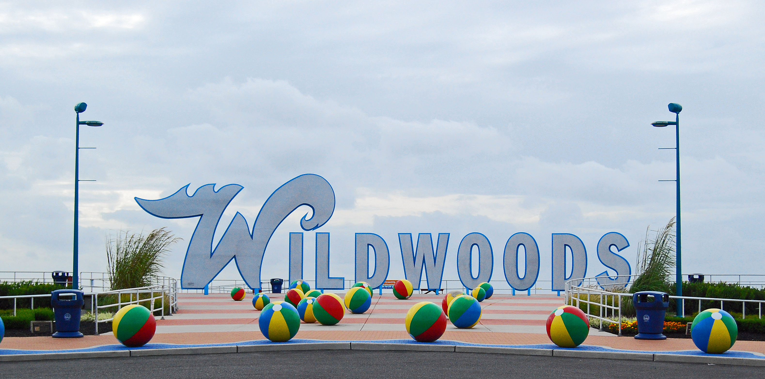 This was taken in Wildwood, NJ near the 2 mile long boardwalk.